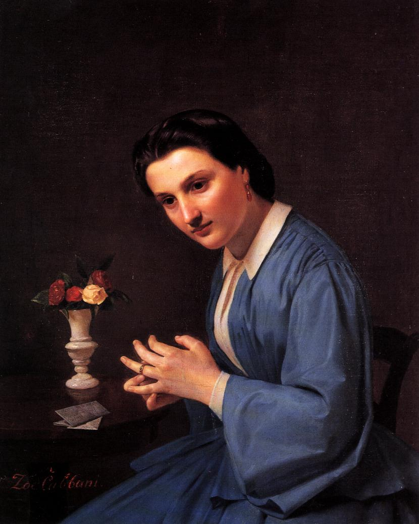 Portrait_of_Zoe_Kambanis, painting by Nikolaos Kounelakis (1829-1869)